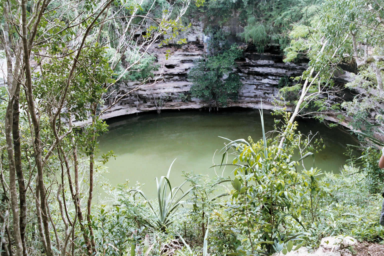 Sacred Cenote at Chichén Itzá Author:André Möller (User:Andre_m) Date:2003-August